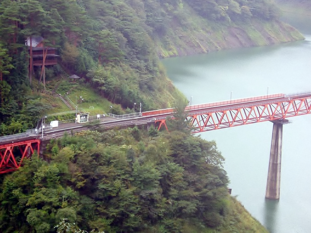 Okuoi Kozyo Sta.